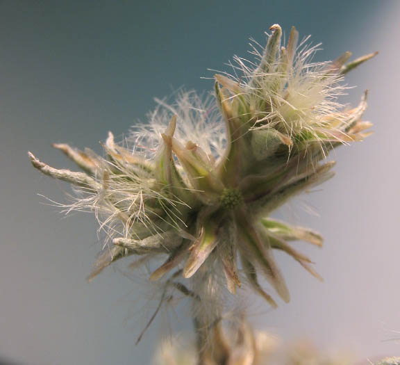 Filago gallica. Santa Monica Mountains National Recreation Area, California, USA. Taken at Circle X Ranch: Backbone Trail below Triunfo peak. NPS photo, no copyright.